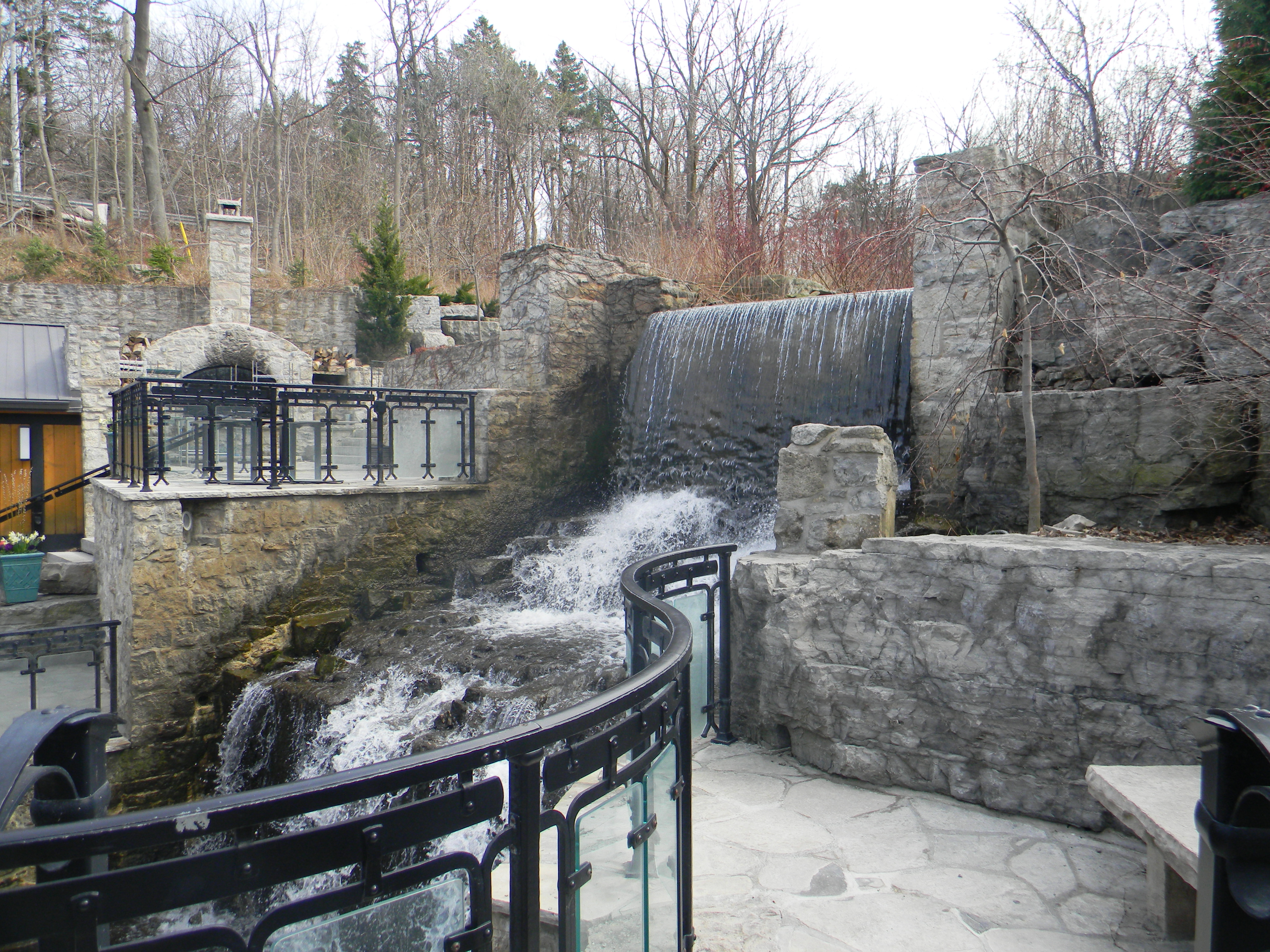 Ancaster Mill, Ancaster, Ontario (Mill Creek)